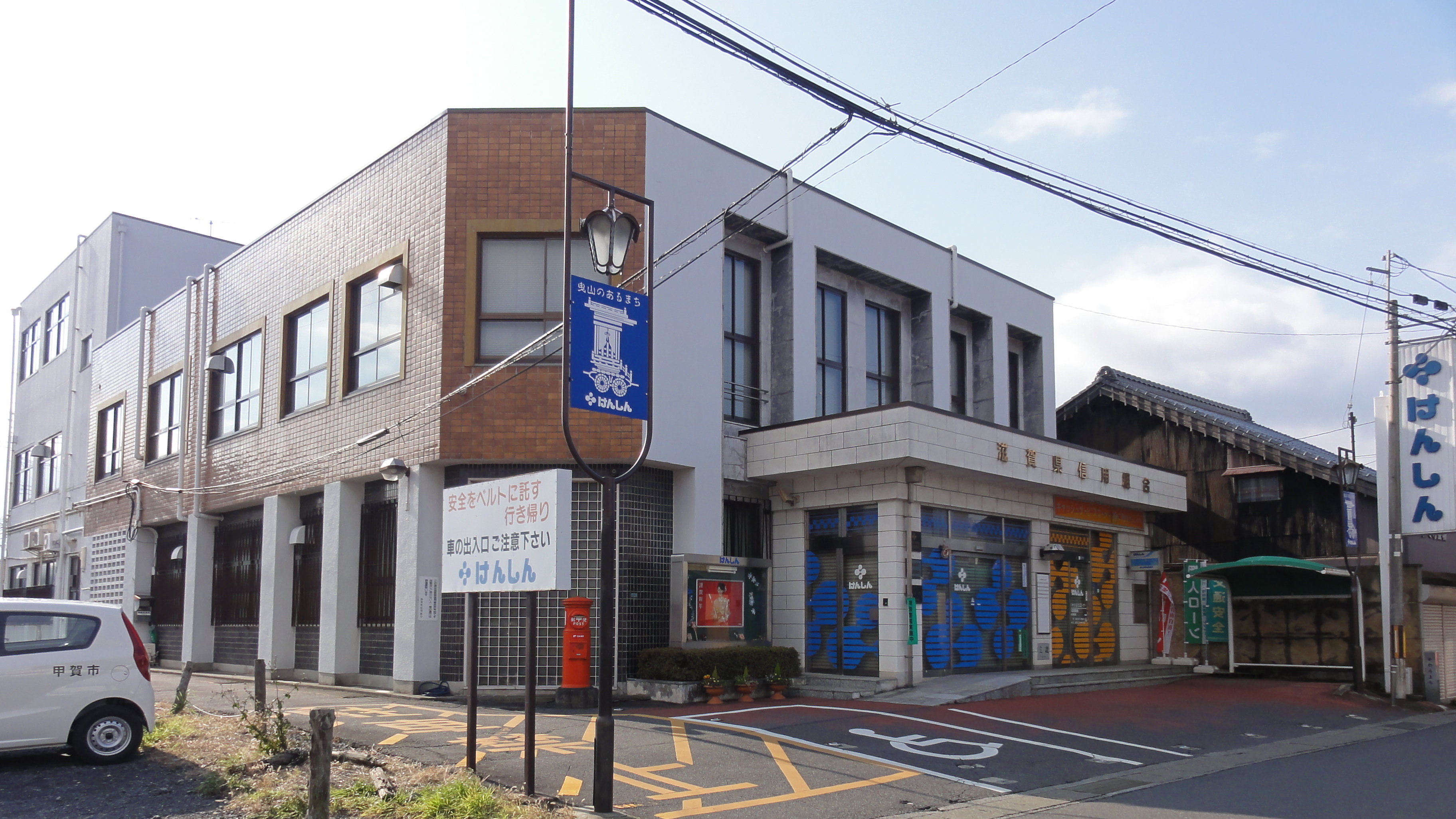 Shiga-ken Credit Union,Shiga prefecture, Japan